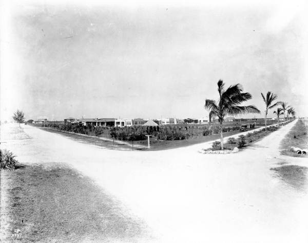 Local call number: Rc16960 Personal Author: Fishbaugh, W. A. (William A.) Title: [Intersection of Palm Avenue and County Road : Hialeah, Florida] [graphic] Publication info: 1921. Physical descrip: 1 photoprint b&w 8 x 10 in. Series Title: (Reference collection)